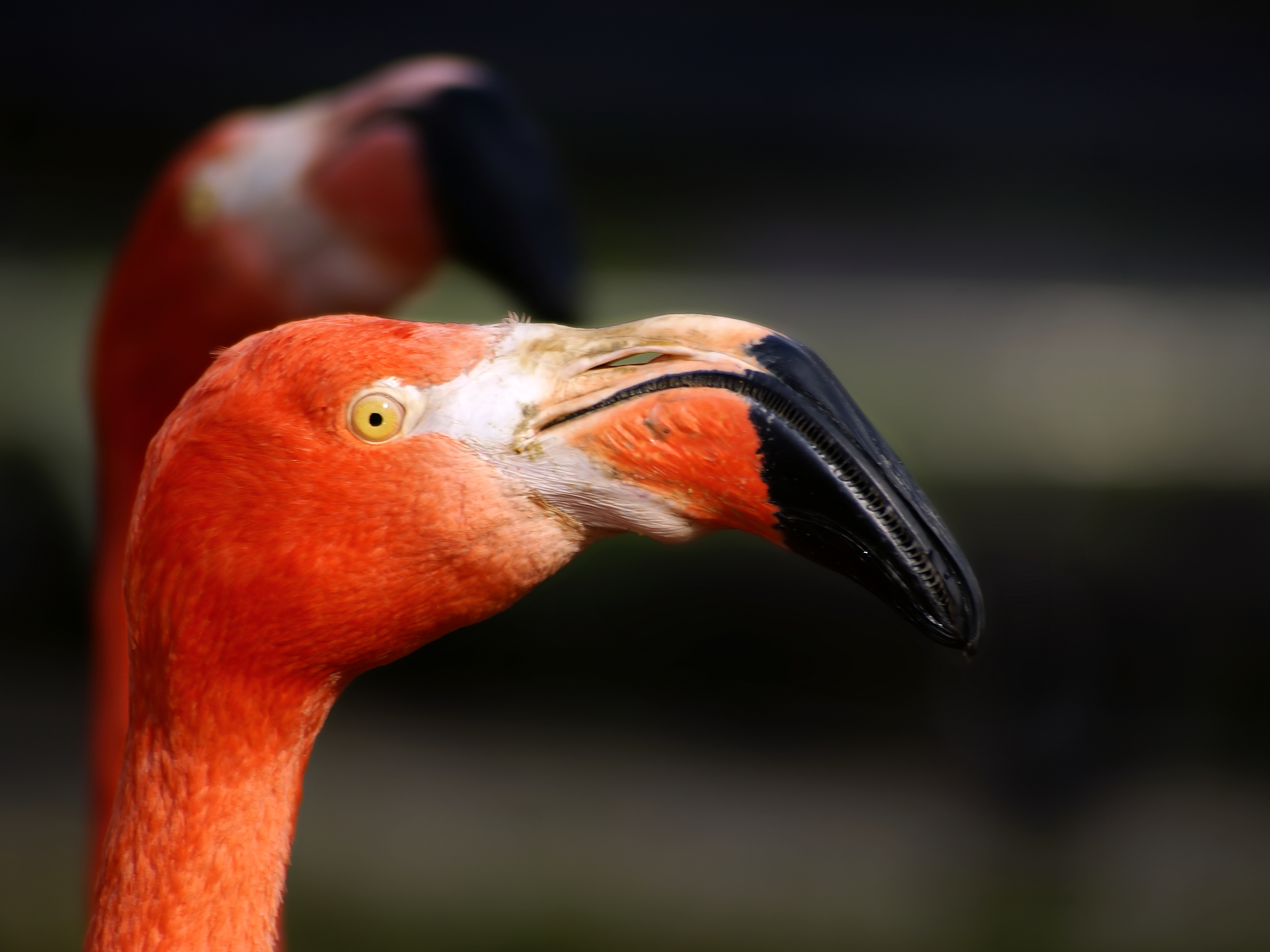 Caribbean Flamingo at the Antwerp Zoo, Belgium